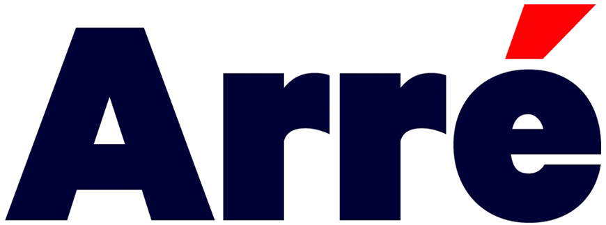 This is the logo of Arre.